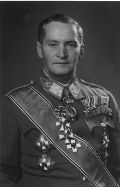 Béla Miklós de Dálnok, Hungarian military office and Prime Minister of Hungary between 1944 and 1945